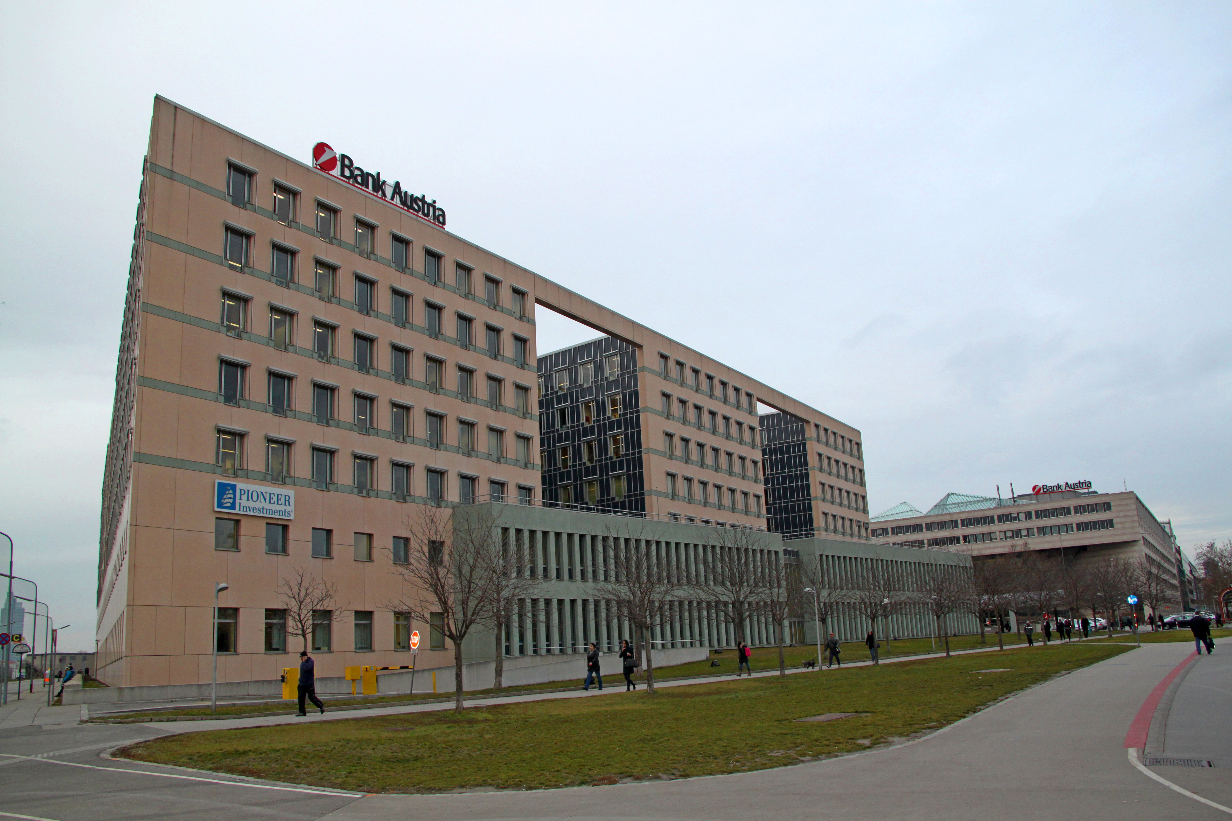 Building of the UniCredit Bank Austria AG in Vienna